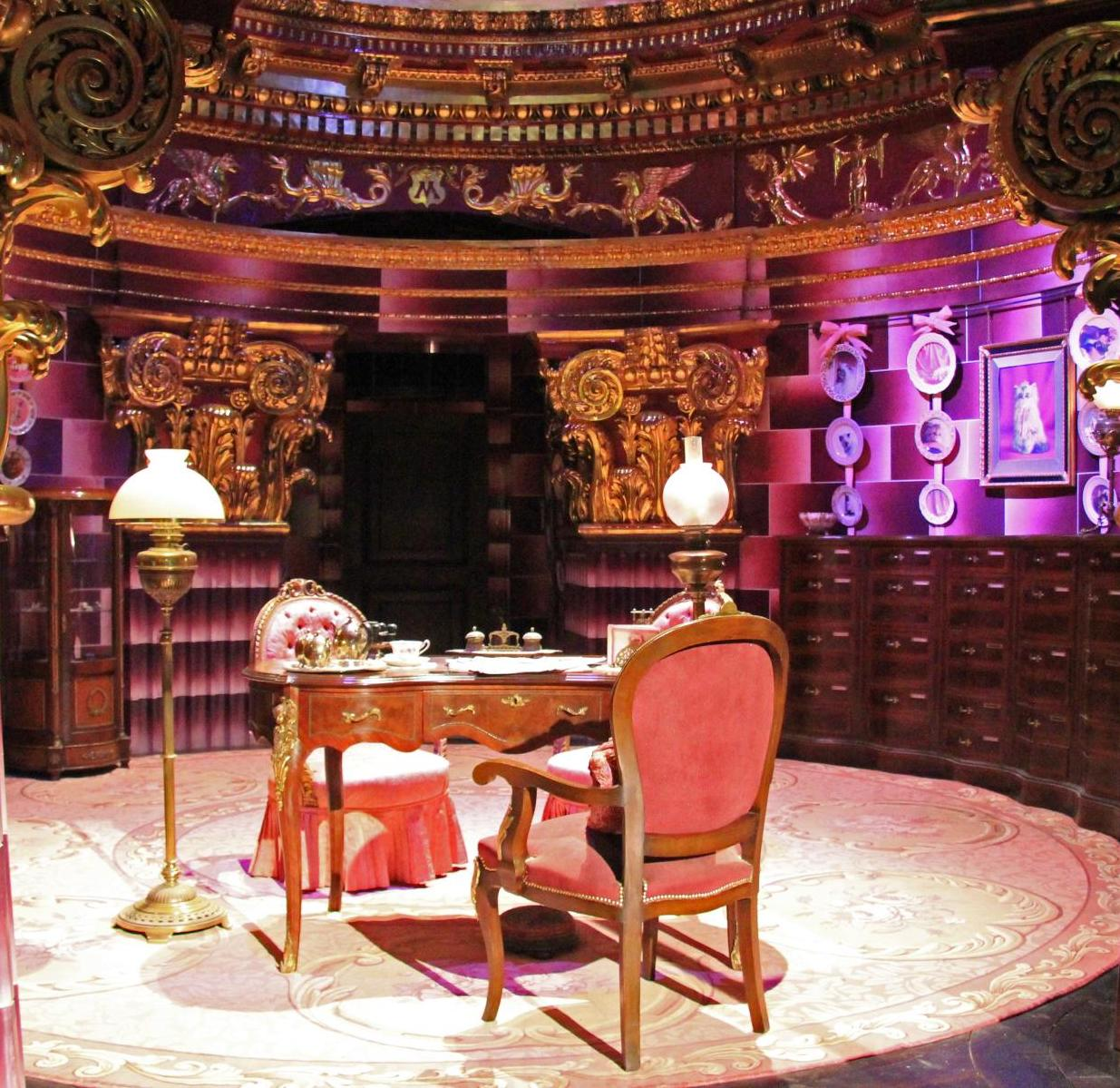 Warner Bros. Studio Tour London: The Making of Harry Potter.